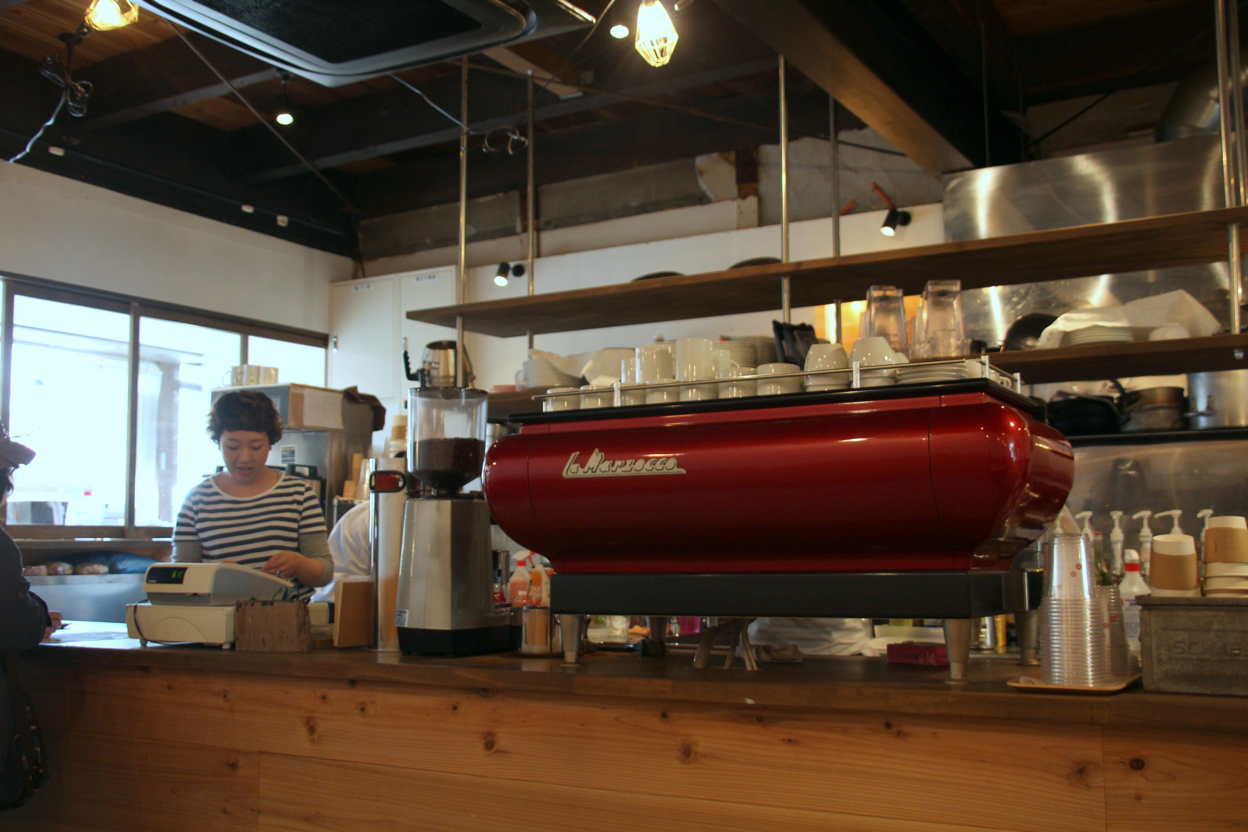 They even have a La Marzocco